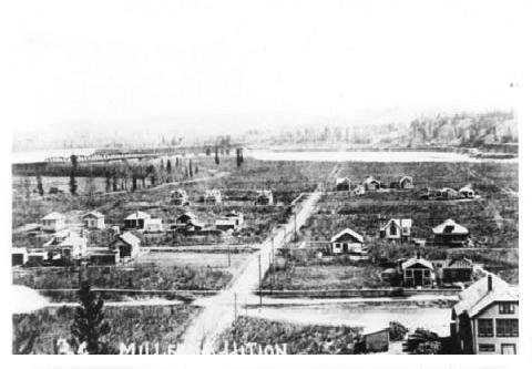 Photographer:Unknown Photo taken:1921 Source:P981.19.15 [1]